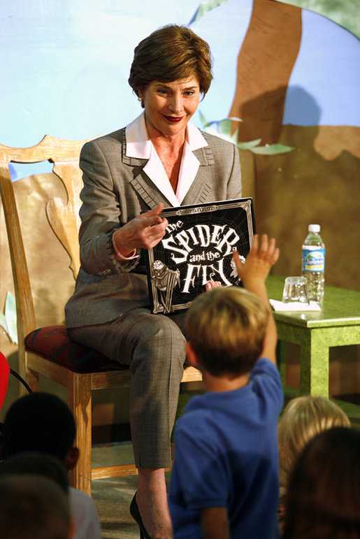 Mrs. Laura Bush calls on a young member of the audience to speak after she finished reading the book, The Spider and the Fly by Mary Howitt, illustrated by Tony DiTerlizzi, during a visit to the West Palm Beach Public Library in West Palm Beach, Fla., Friday, Oct. 27, 2006. The Library began its reading room in a congregational church in 1894, and has grown to have over one hundred-thousand books in their collection. White House photo by Shealah Craighead